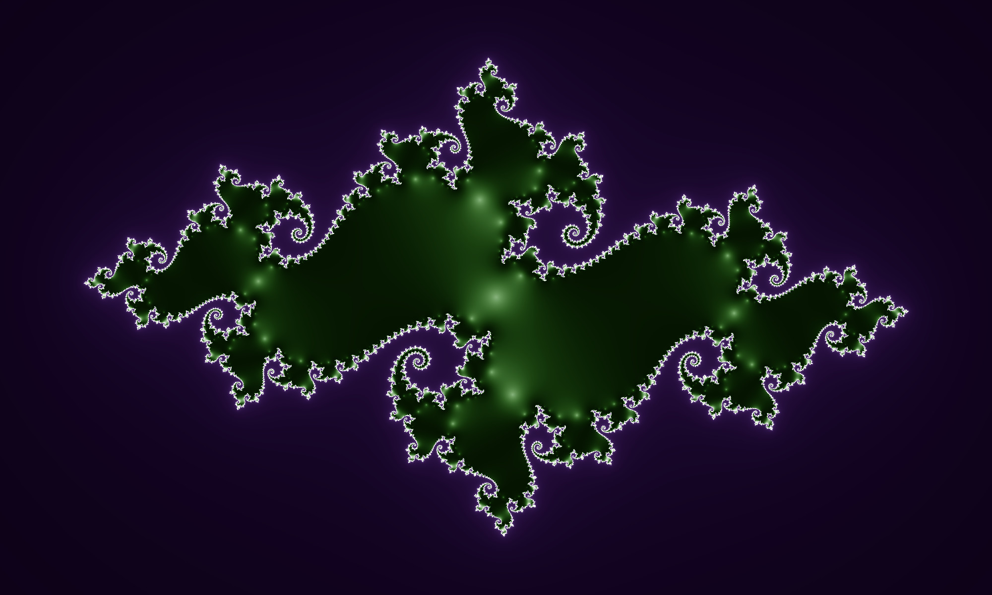 Julia set for z ↦ z 2 − 0.742 + 0.1 i {\displaystyle z\mapsto z^{2}-0.742+0.1i} . This point is inside period 1 component but near boundary so critical orbit looks like a spiral